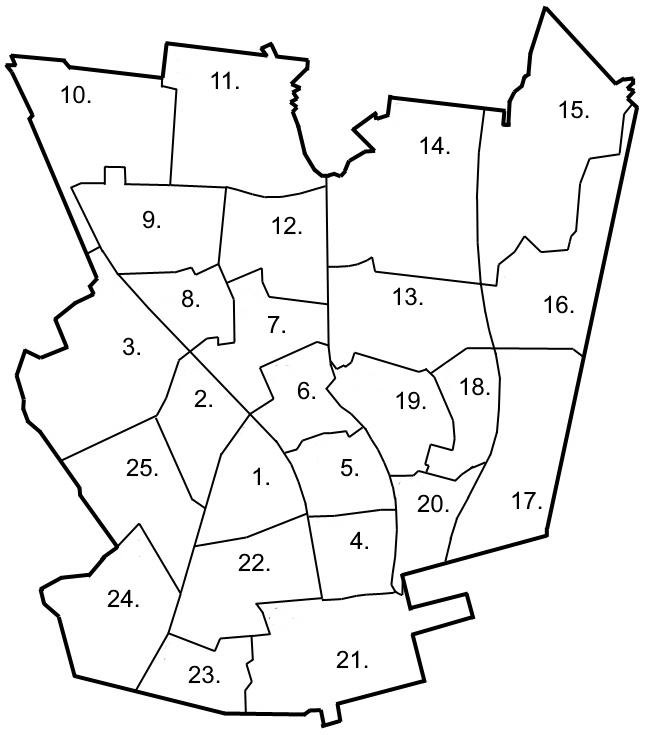 A map of neighbourhoods in the city of Järvenpää. The names of the individual neighbourhoods are listed below. The official statistical district numbers are in parenthesis after the name. Finnish: Kartta Järvenpään kaupunginosista. Kaupunginosien nimet ovat alla olevassa listassa. Nimen perässä suluissa on virallinen tilastoalueen numero. 1. Wärtsilä (10) 2. Nummenkylä (11) 3. Pietilä (14) 4. Haarajoki (15) 5. Jamppa (9) 6. Peltola (12) 7. Isokytö (13) 8. Mylly (16) 9. Saunakallio (3) 10. Sorto (8) 11. Pajala (7) 12. Loutti (2) 13. Pöytäalho (6) 14. Terhola (19) 15. Satumetsä (18) 16. Mikonkorpi (17) 17. Kaakkola (25) 18. Keskus (3) 19. Kinnari (5) 20. Satukallio (20) 21. Vanhakylä (24) 22. Lepola (22) 23. Kyrölä (4) 24. Terioja (23) 25. Ristinummi (21)